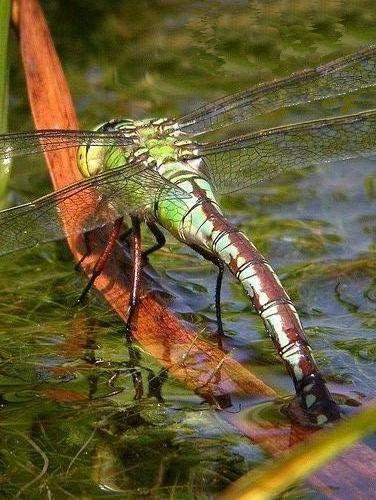 An Original Digital Photograph of an Emperor Dragonfly